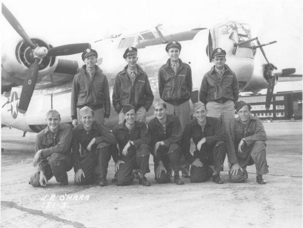 The John B. O'hara crew of the B-24 Liberator "War Bride" (serial no. 42-52196). Lost in a plane crash in Norway. September 9th, 1944. Front row from left: Frank G.Felthouse, 20 (gunner), Norman J McLaughlin, 20 (gunner), Robert T.Finn, 23 (flight engineer), Bernhard F.Gittelman, 23 (radio operator), Wesley C.Bowman, 21 (gunner), Hubert D.Bourquin, 29 (gunner). Back row from left: Lewis T.Bambick, 26 (navigator), Delbert F. McCrary, 23 (co-pilot), John B.O'Hara, 22 (pilot), Paul Bloomberg,24 (bombardier).